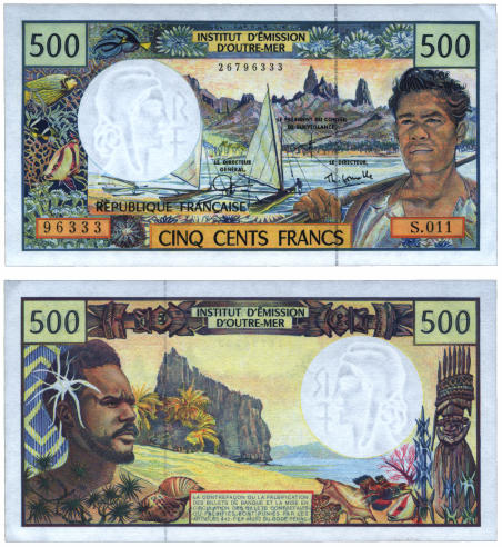 500 pacific francs bill Both side